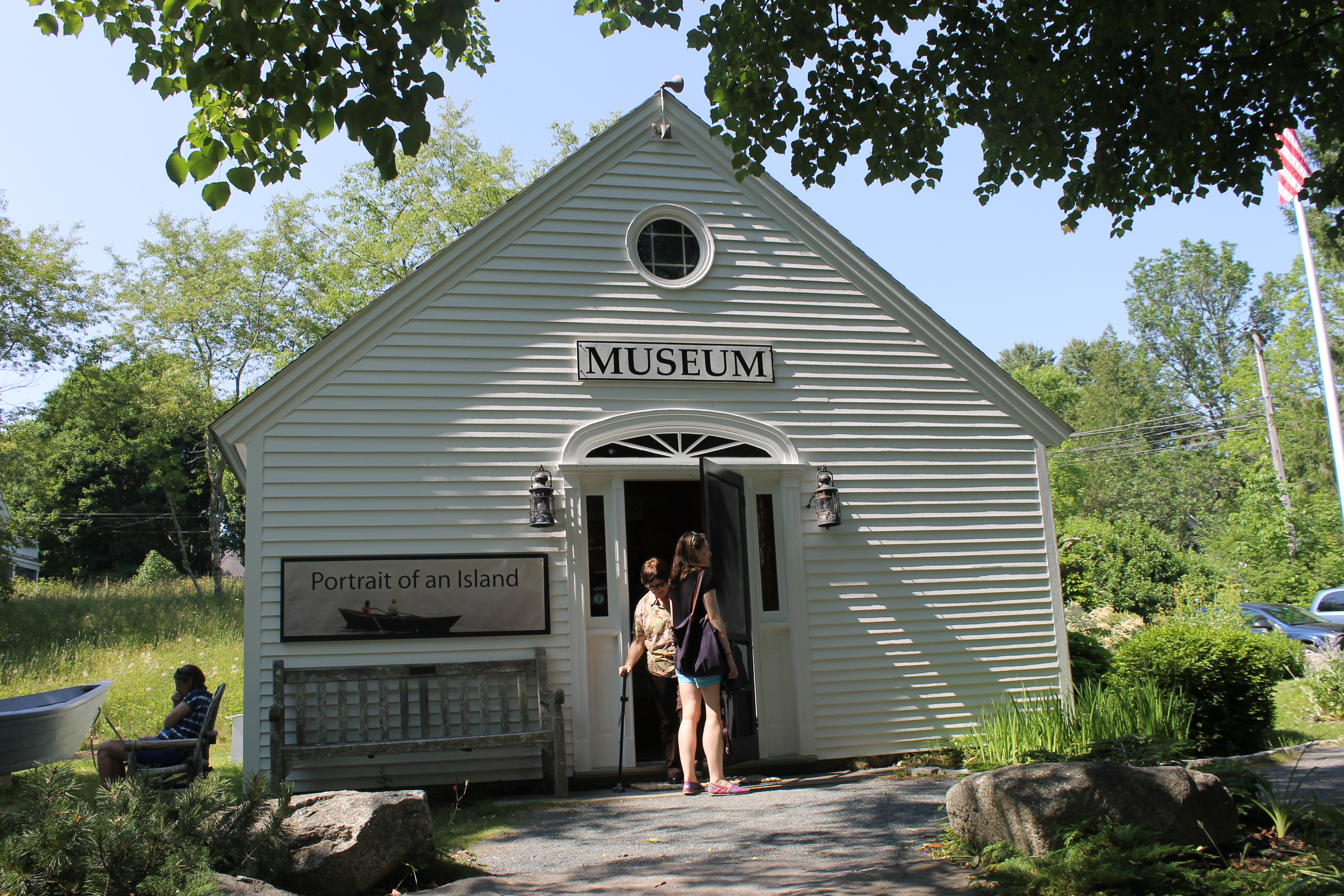 I took photo with Canon camera of Portrait of an Island Museum in Somesville, ME.